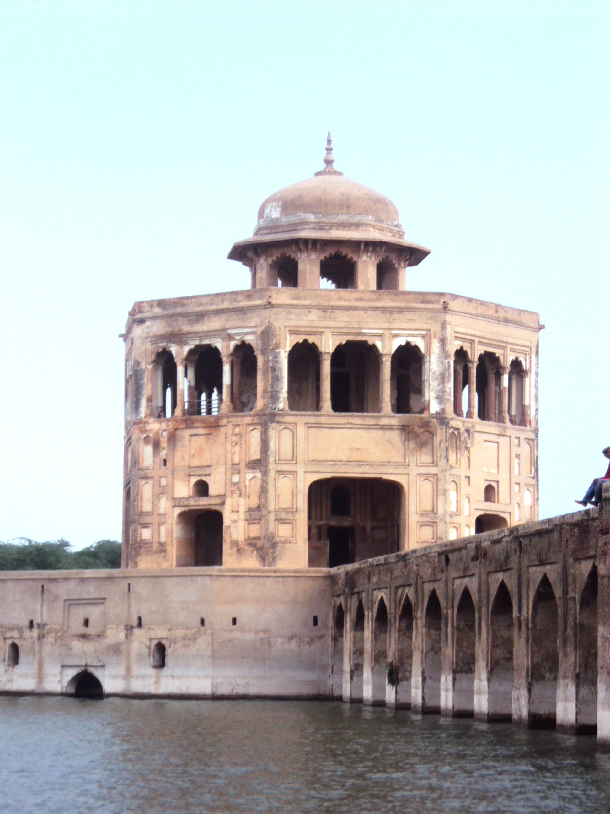 Hiran Minar and Tank This is a photo of a monument in Pakistan identified as the PB-145